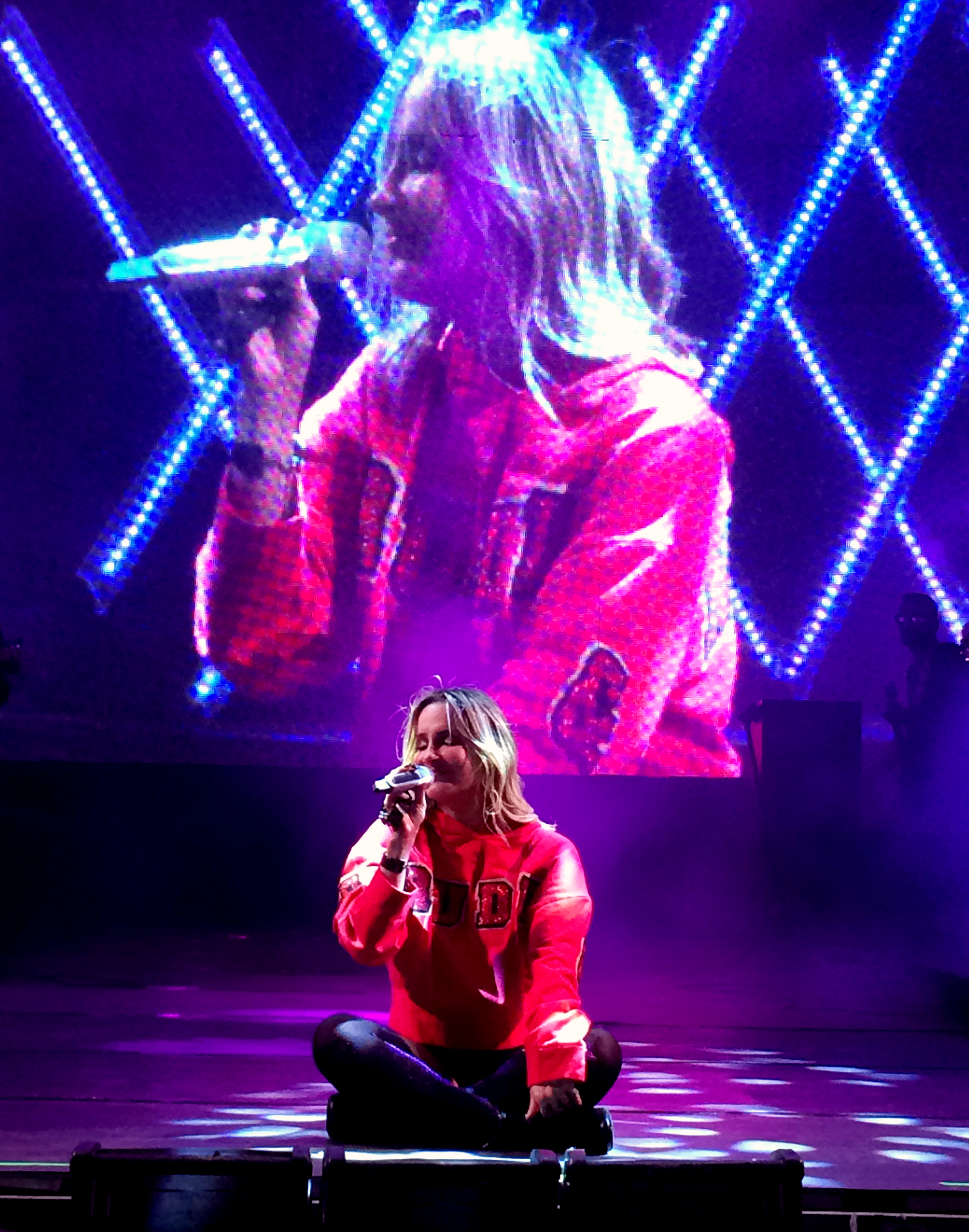 Claudia Leitte Corazón Tour on August 13, 2016 in Belo Horizonte, Minas Gerais